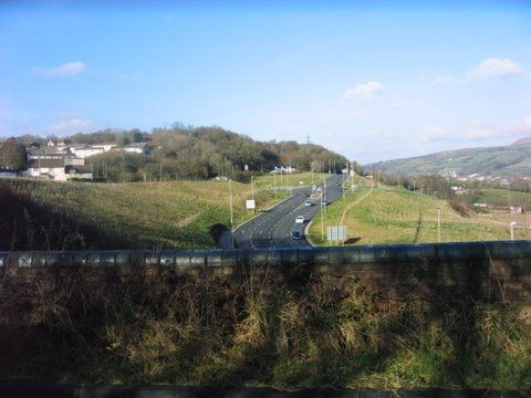 Tonteg Halt Railway Station Area, looking towards Tonteg from station bridge. January 2012